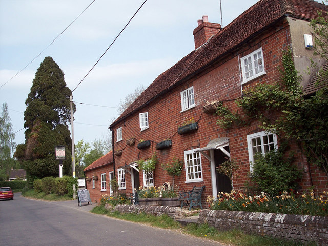 The Cartwheel Situated in the tranquil village of Whitsbury, in an area of outstanding natural beauty, it was originally two cottages built in 1796. Around 1860 it became an inn and was just known at the Wheel. Currently a family run pub serving homemade traditional food. Rumours of hauntings surround the Inn with sightings and physical actions being noted by previous occupants. The Cartwheel nestles under the shadow of the local church where William Hill is buried.